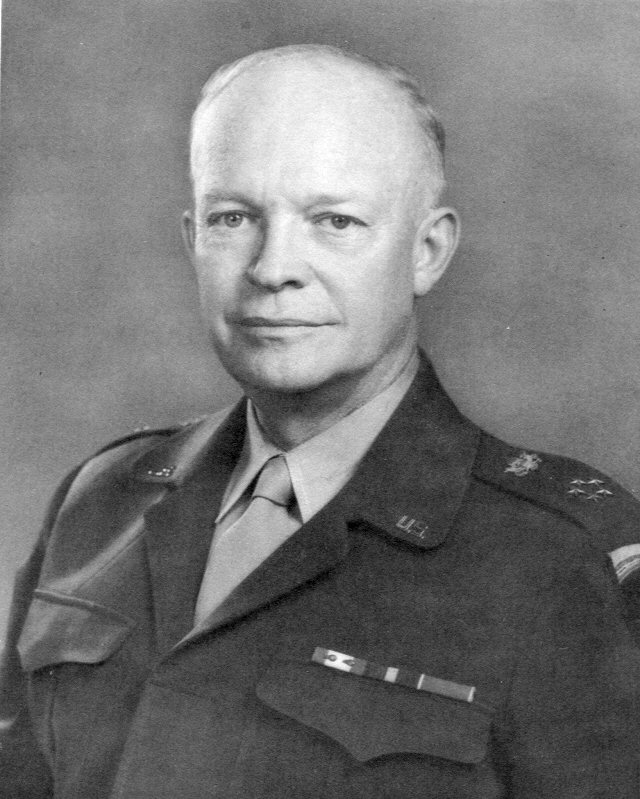 General of the Army Eisenhower